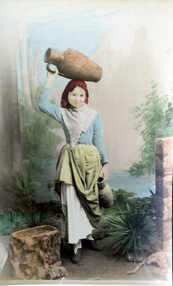 Eugenio Interguglielmi (1850-1911), " Palermo - Water-carrier". Hand-tinted photograph.